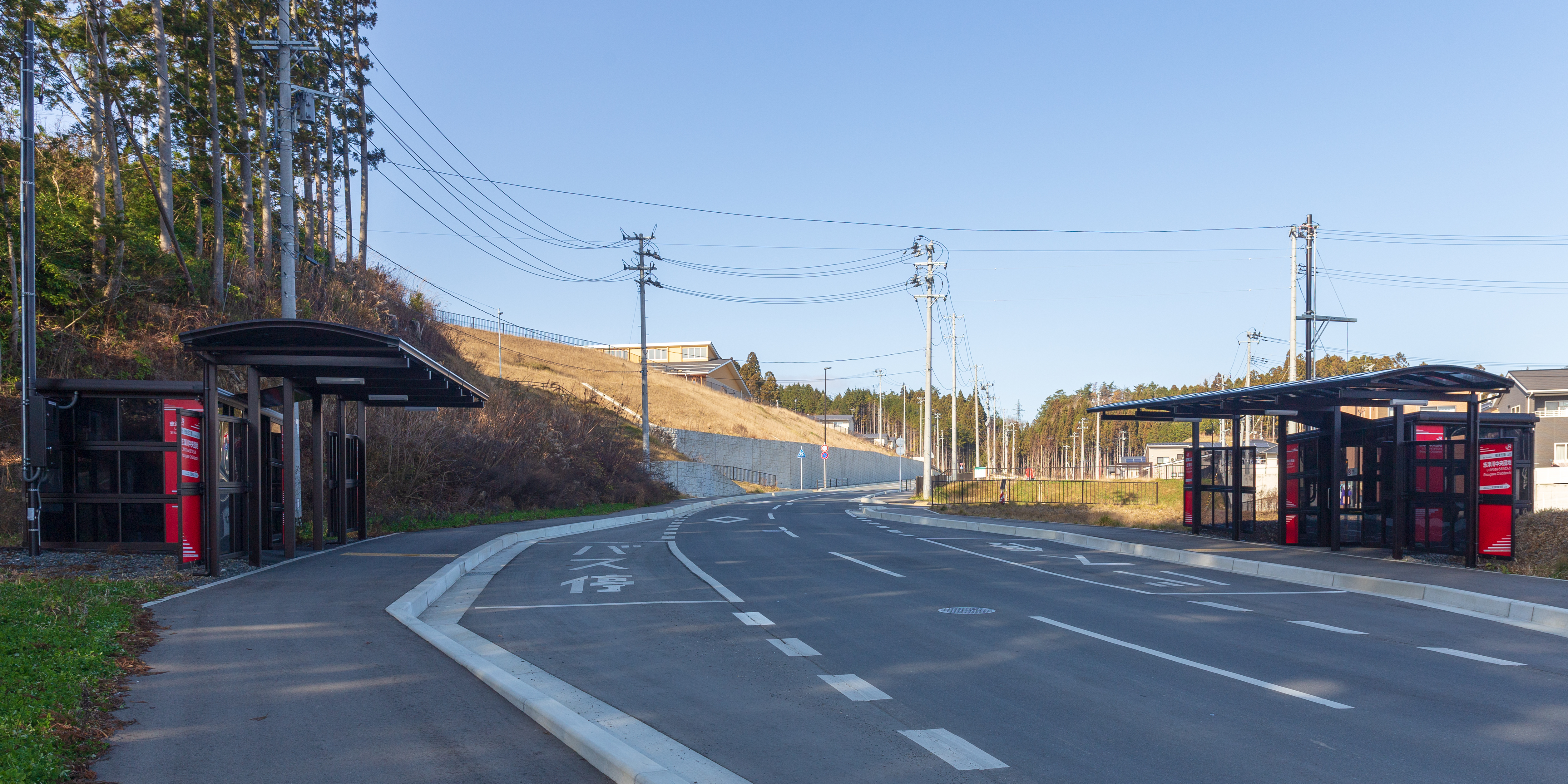 Shizugawa-Chuodanchi Station on the East Japan Railway Company (JR East) Kesennuma Line BRT in Minamisanriku Town, Miyagi Prefecture, Japan